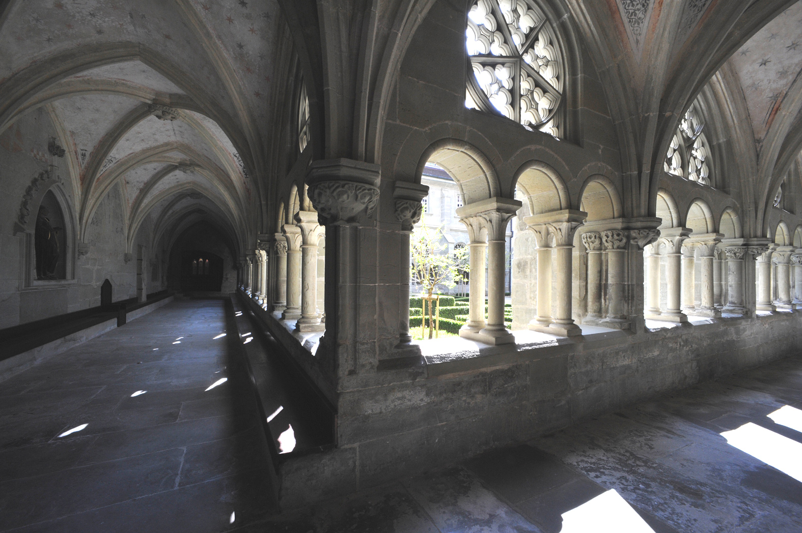 Abbey Altenryf in Hauterive; cloister; Fribourg, Switzerland.